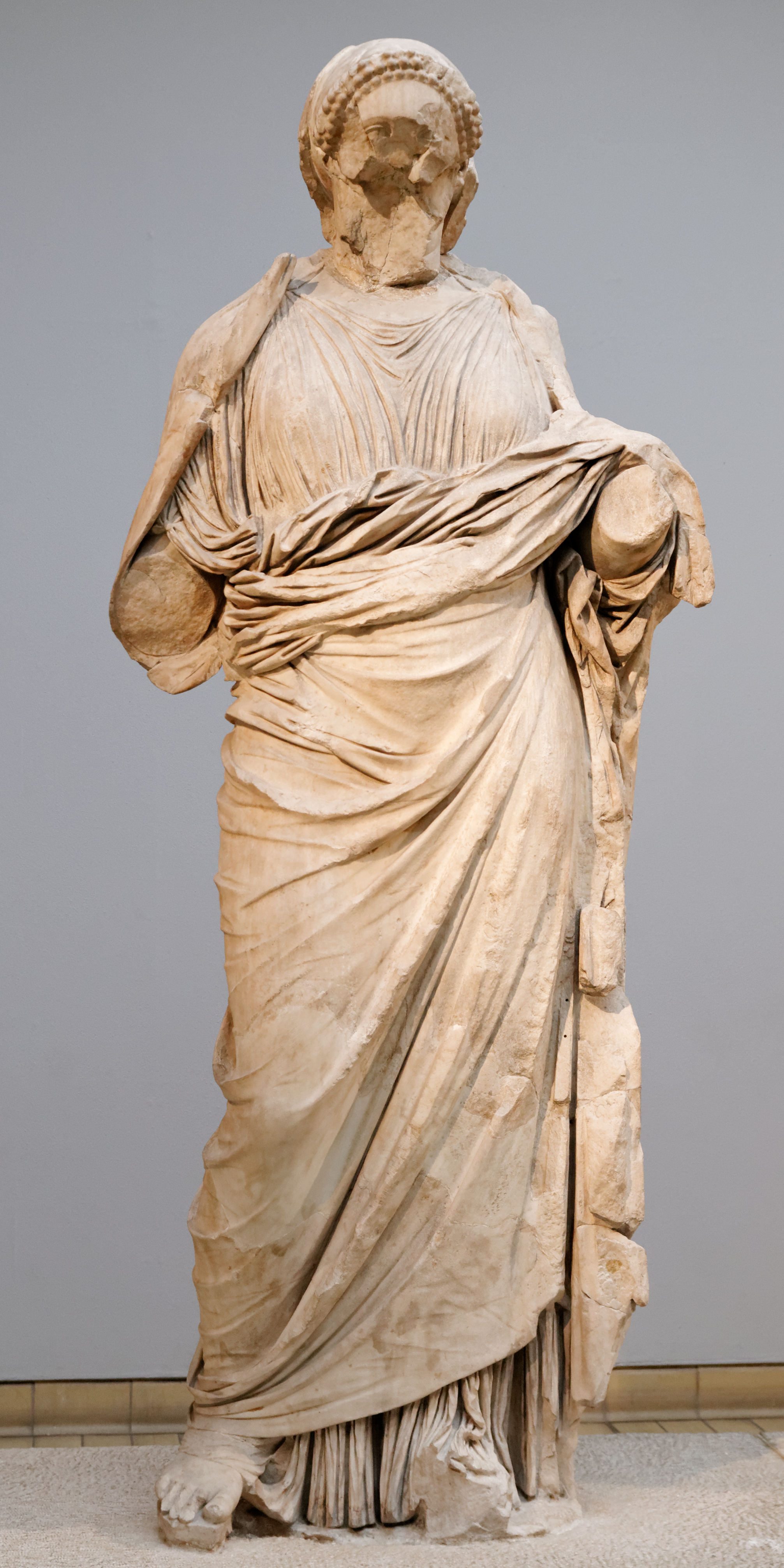 Colossal statue of a woman, traditionnally identified with Artemisia, wife to Maussollos of Caria. From the north side of the Mausoleum of Halikarnassos (modern Bordum, Turkey).